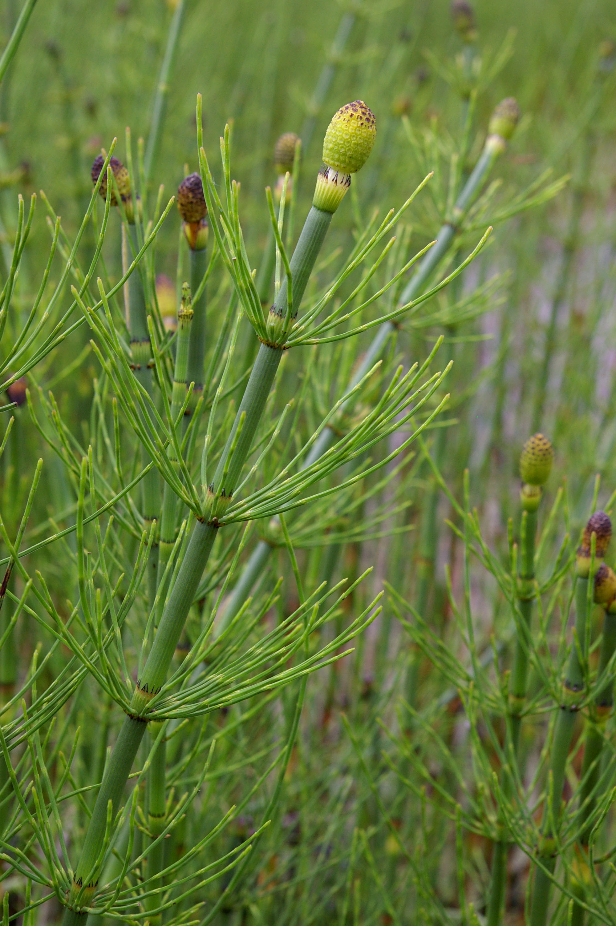 Elder fertile plants of the Water Horsetail, Equisetum fluviatile.